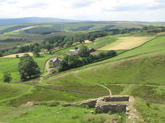 Turret 44b (Mucklebank) and Walltown Farm